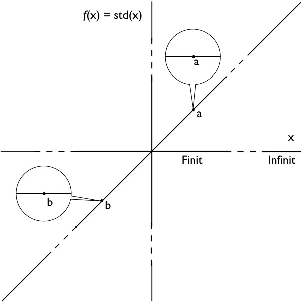 Graph of the hyperreal function f(x) = std(x), where points A and B is considered a so-called infinitely microscope.